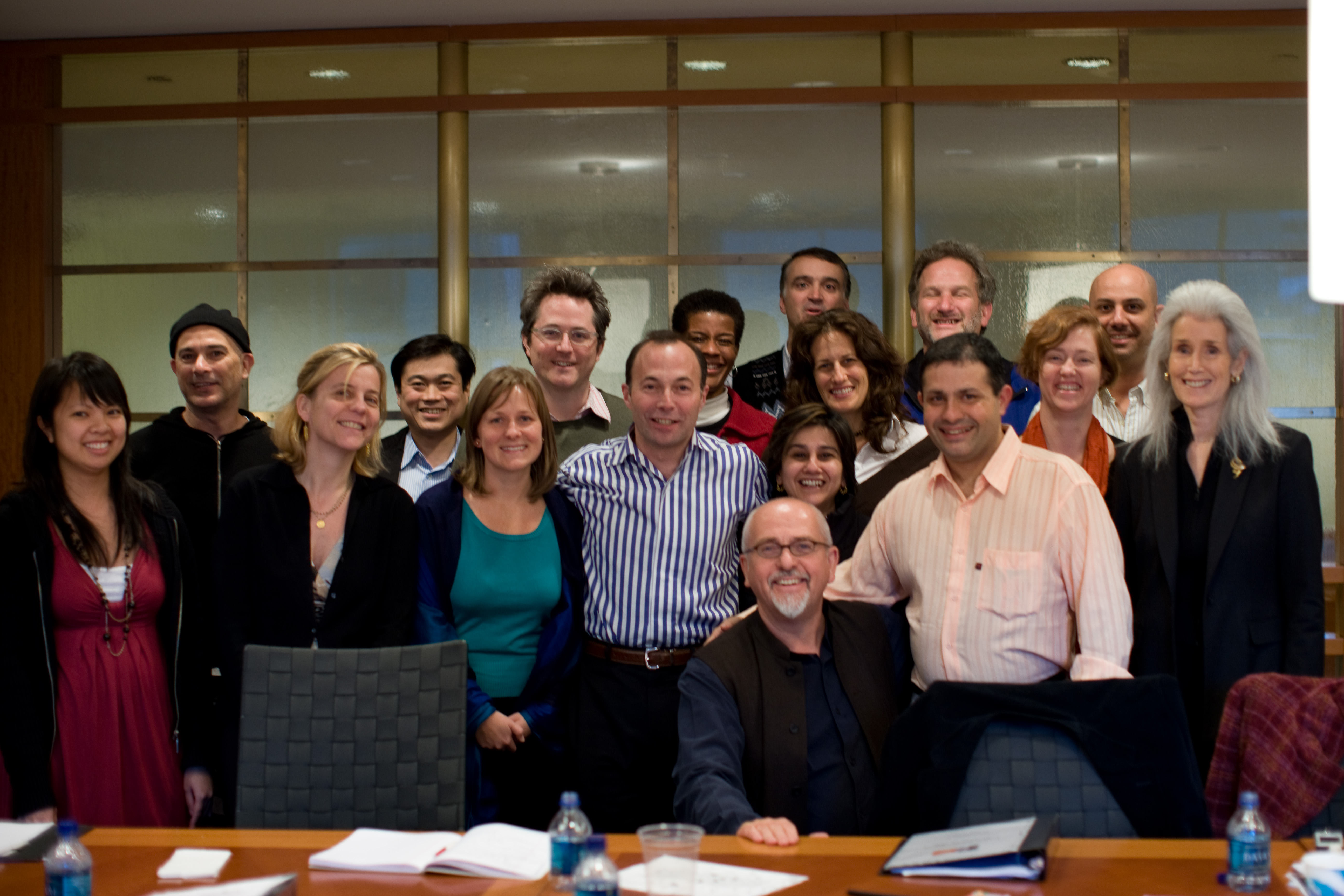 Silvano Lima Rezende and the WITNESS board (Photo by Josh Mailman)